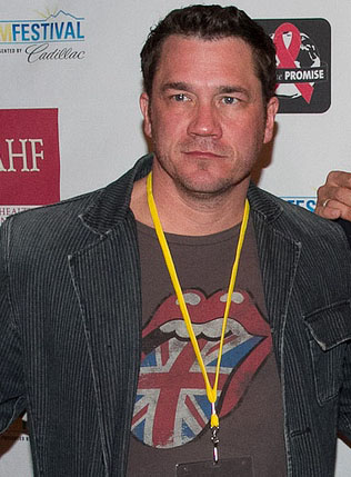 Tate Taylor